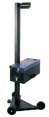 A typical headlight aligner from the UK MOT test scheme